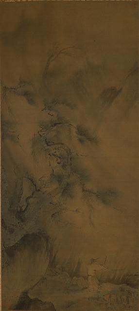 Summer Mountain (絹本著色夏景山水図, kenpon chakushoku kakei sansui-zu). Hanging scroll, 126.9 cm x 54.5 cm. Color on silk. Located at Kuonji, Minobu, Yamanashi, Japan. The scroll has been designated as National Treasure of Japan in the category paintings.